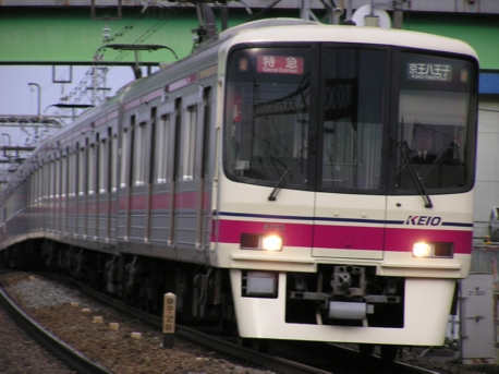 Keio 8000 series